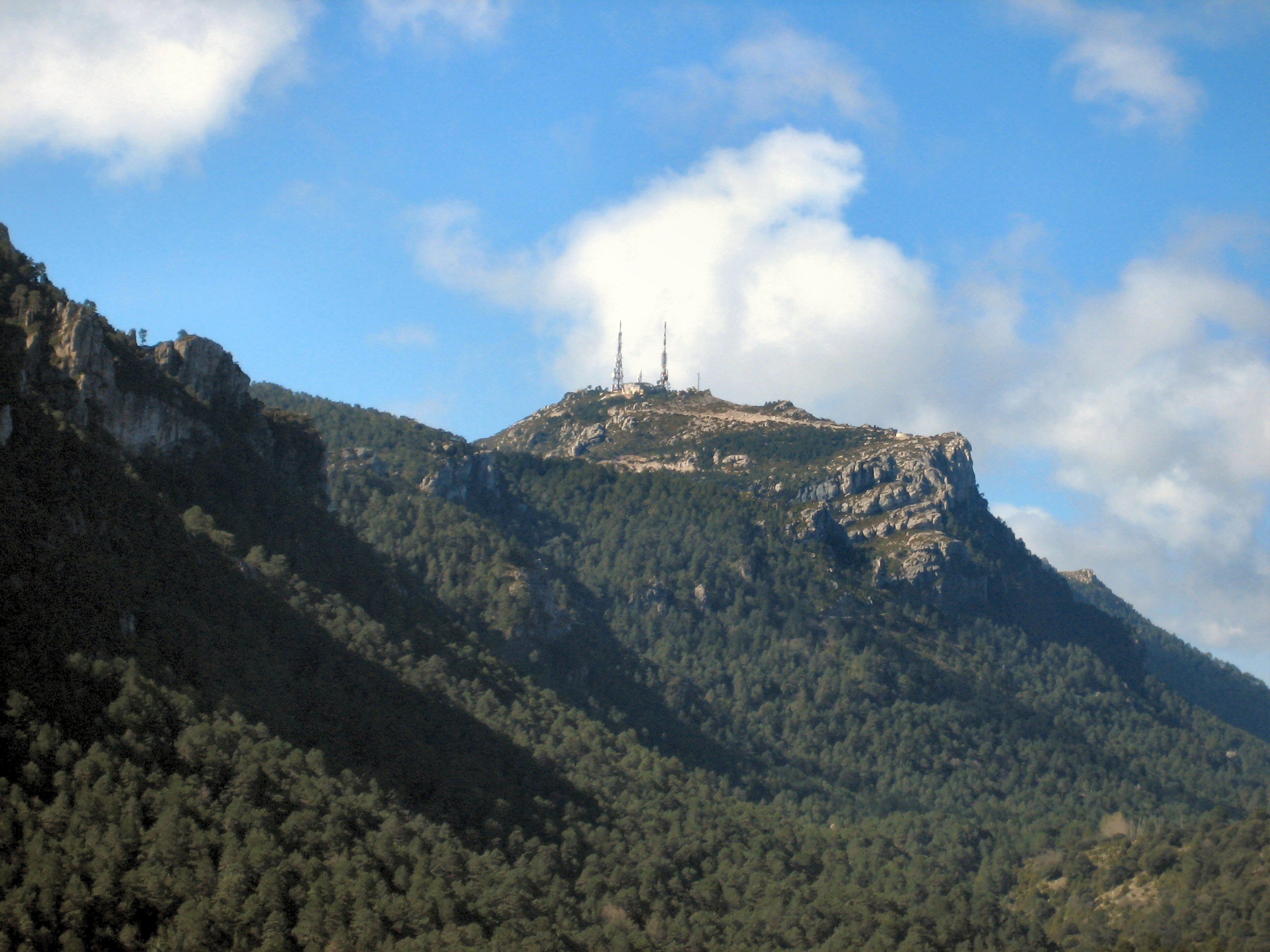 Mount Caro (1,442 m), Ports de Tortosa Beseit, Tarragona, Catalonia, Spain (40°48′11.18″N 0°20′35.13″E / 40.8031056°N 0.3430917°E)